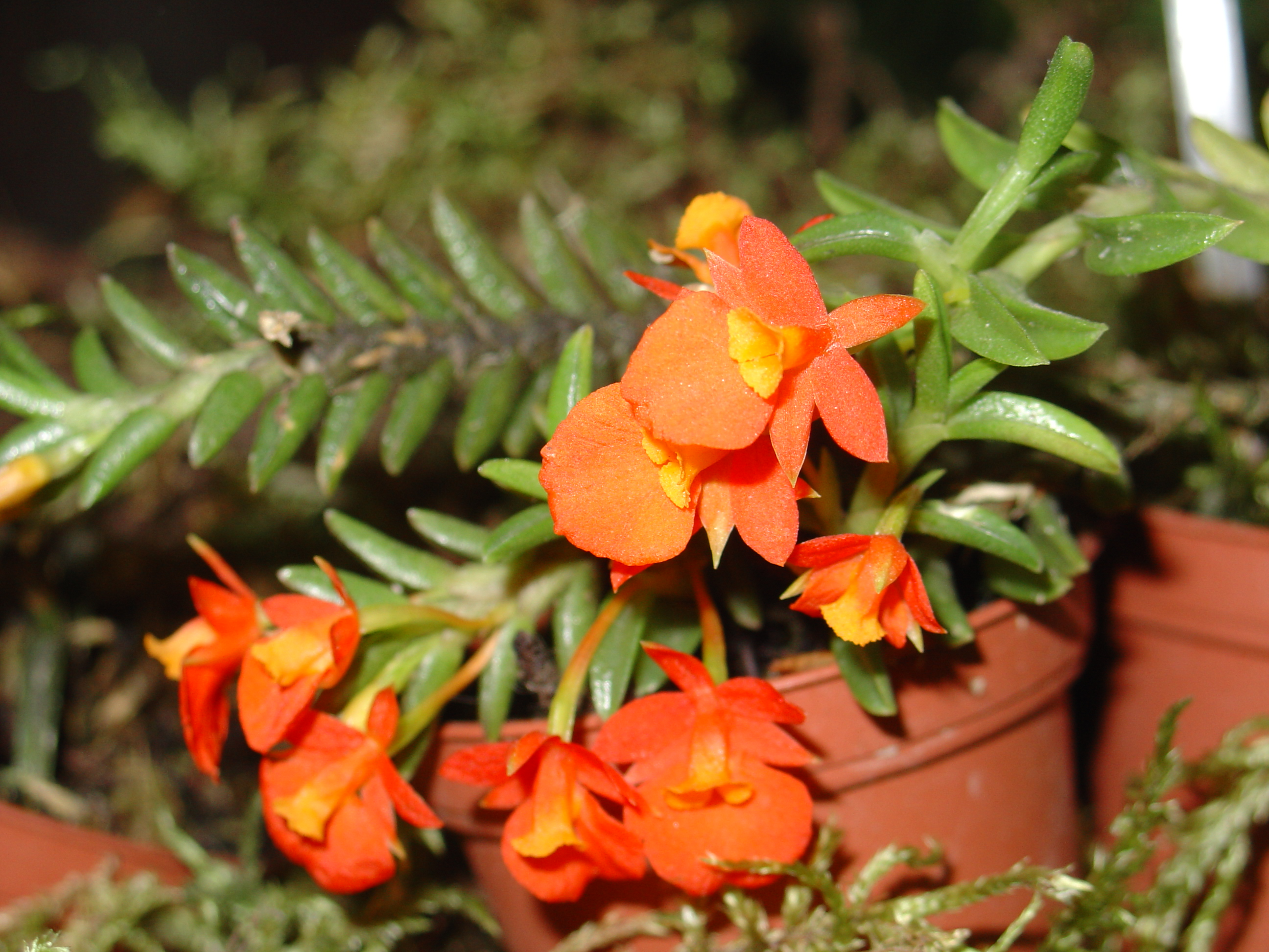 Fernadezia subbiflora